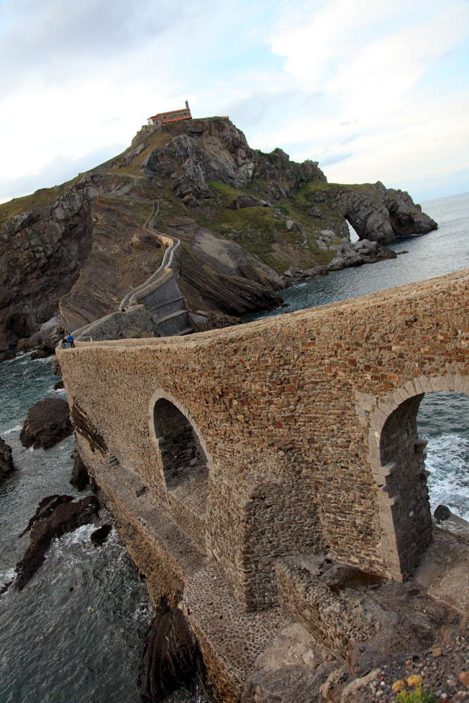 San Juan de Gaztelugatxe / Spain, The Coast Of Biscay